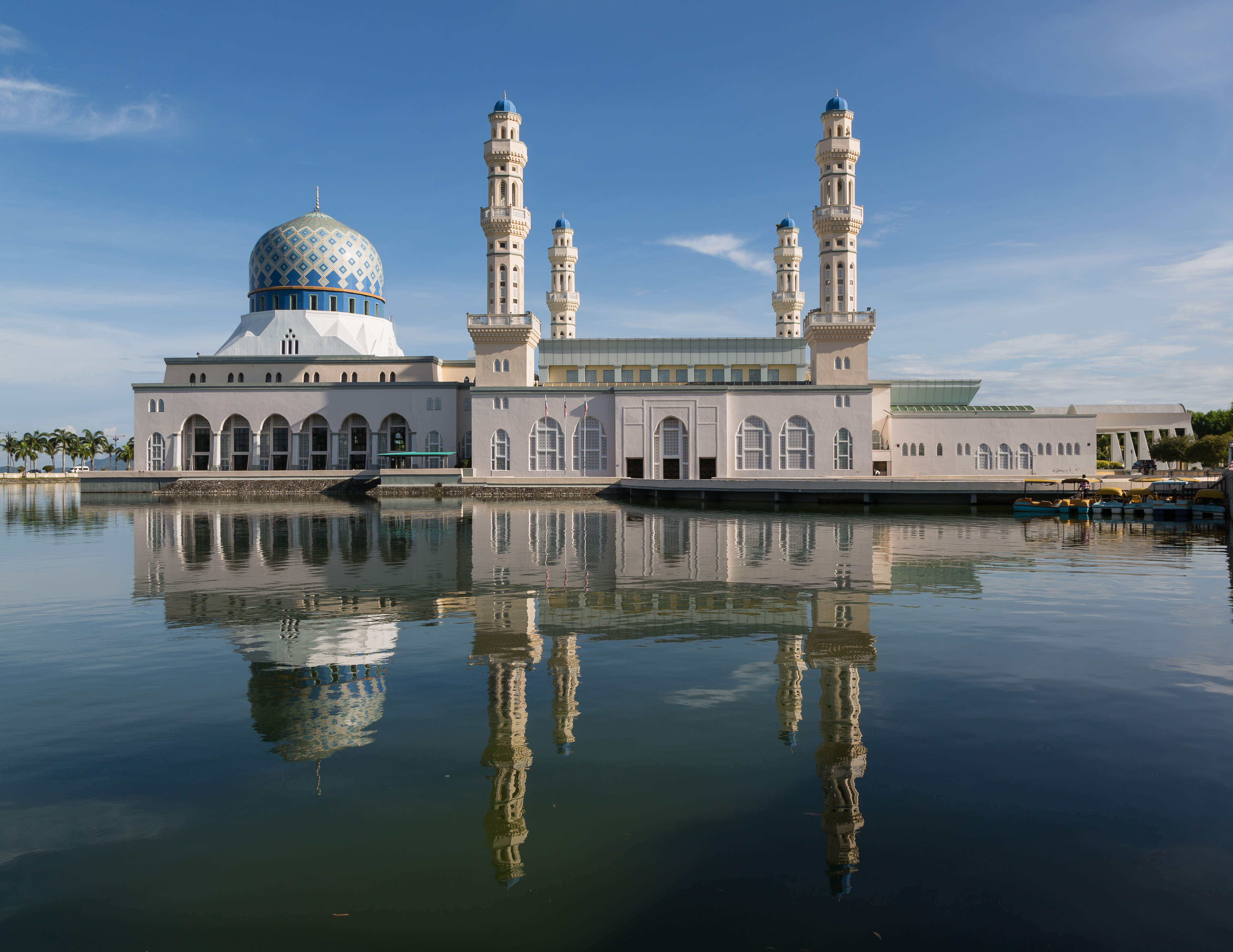 Kota Kinabalu, Sabah: City Mosque in Likas (south side).